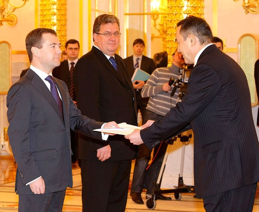 THE KREMLIN, MOSCOW. Presentation of foreign ambassadors’ letters of credence. Ambassador of the Republic of Kazakhstan Zautbek Turisbekov presents his letter of credence to the President.